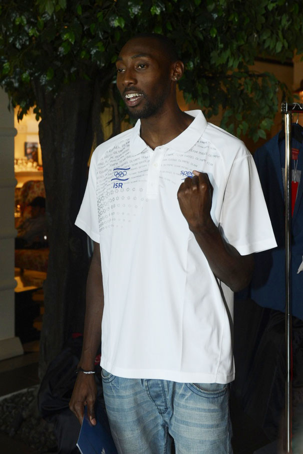 Donald Sanford,Eilat 2012